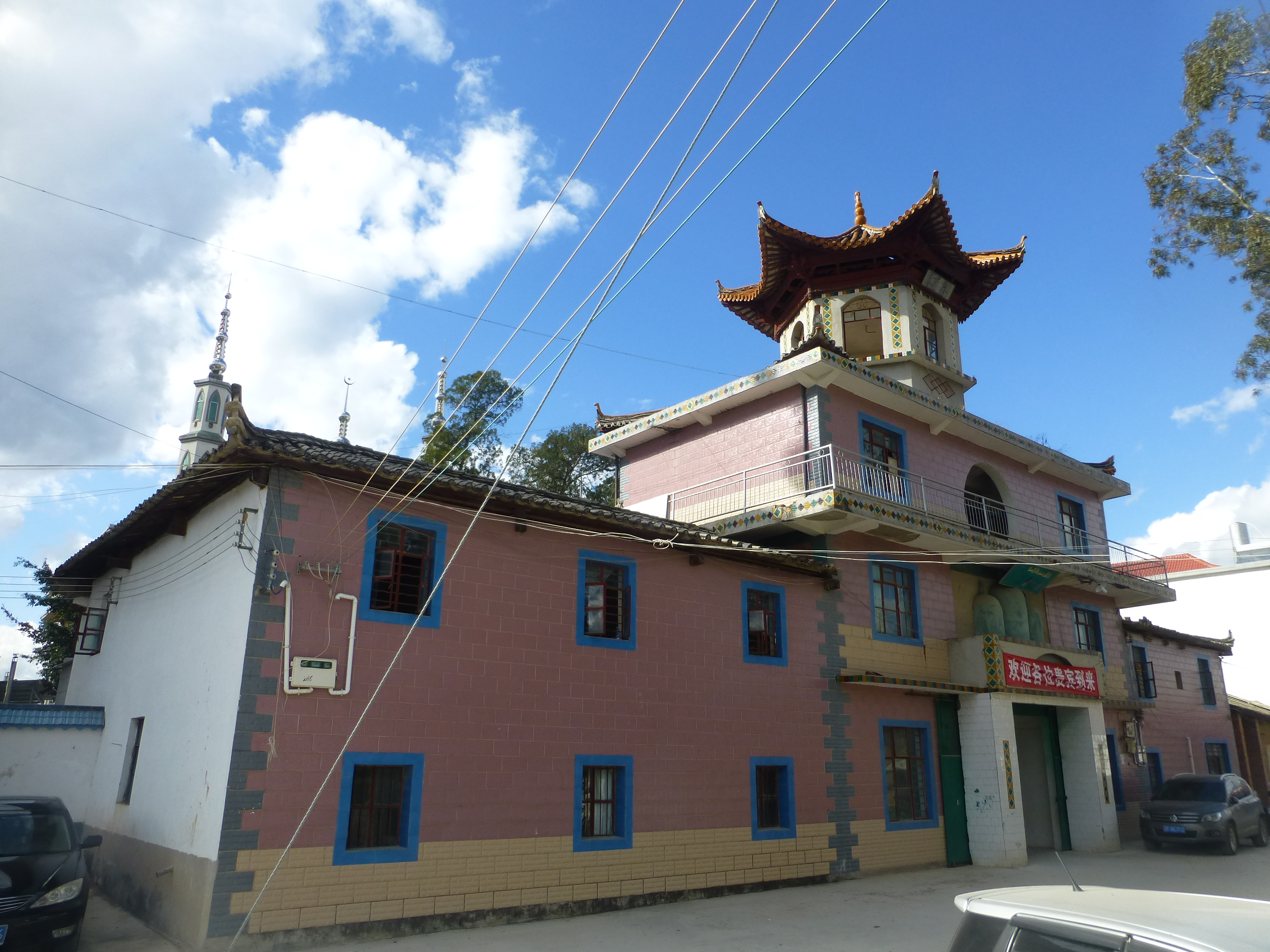 Guanyi Village, south of Qujiang Town, Jianshui County, Yunnan